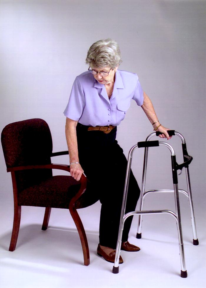 This is one of LifeSpan Furnishing's line of chairs, designed to make sitting down and rising safer and easier. The features of the chair that provide users with better leverage and support are noted in the description of the image at the image's online source that is linked to below. This is one of a series of ten images of this line of chairs at that online source. The ID numbers there of the ten images are 9144 – 9153.